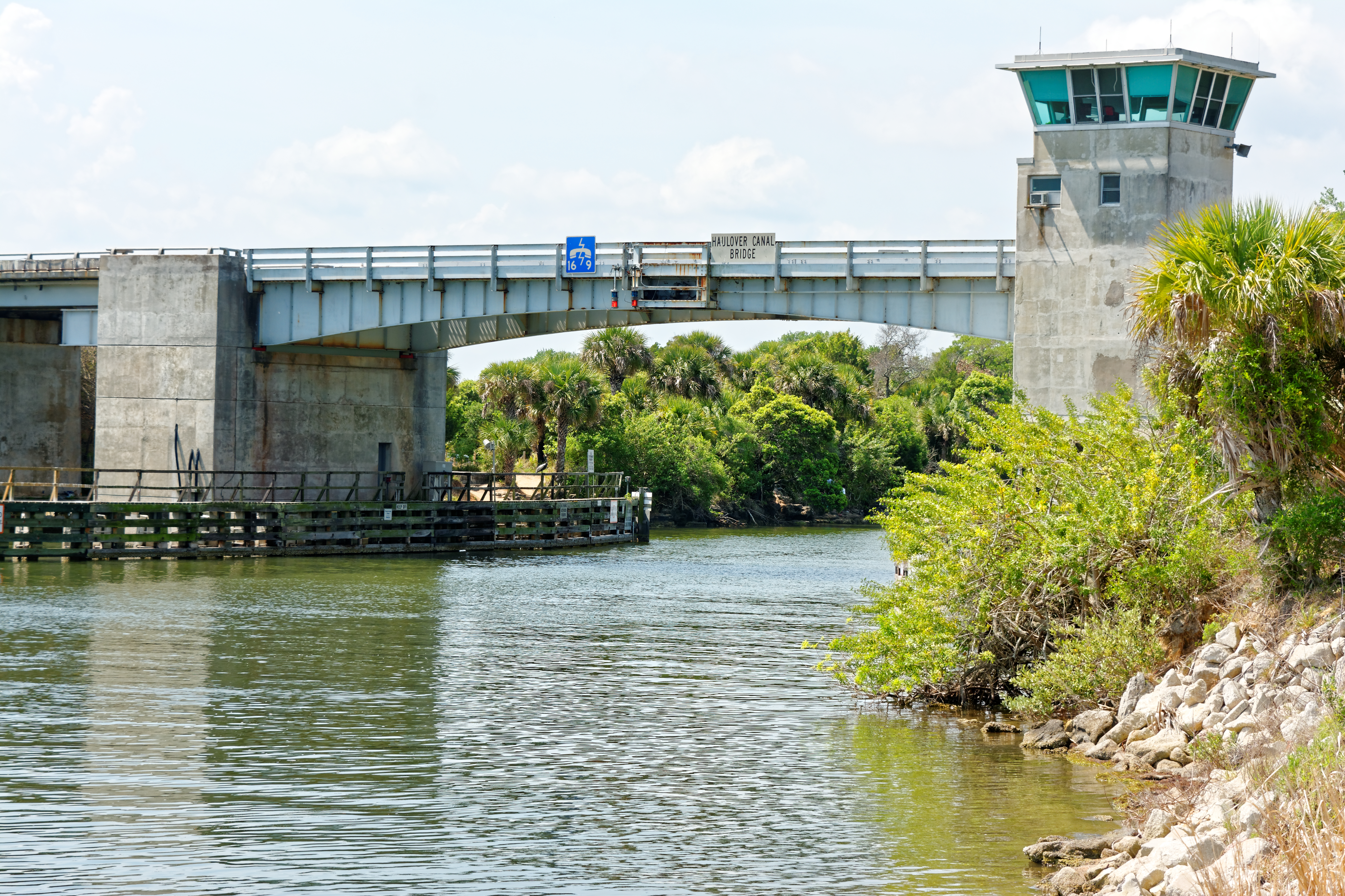 The bridge over the Haulover Canal in Florida, U.S.